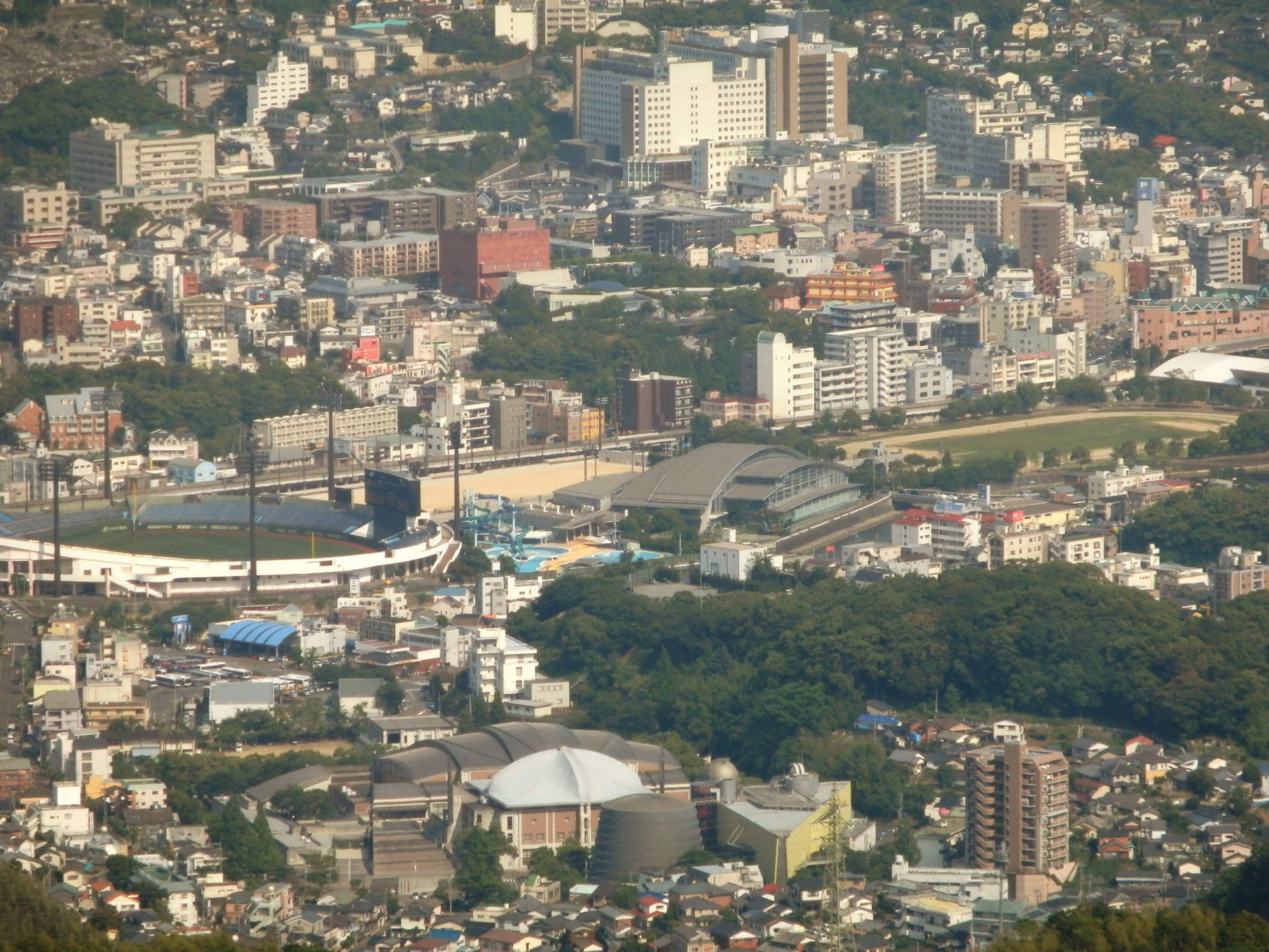 Nagasaki city peace park sports zone overall picture